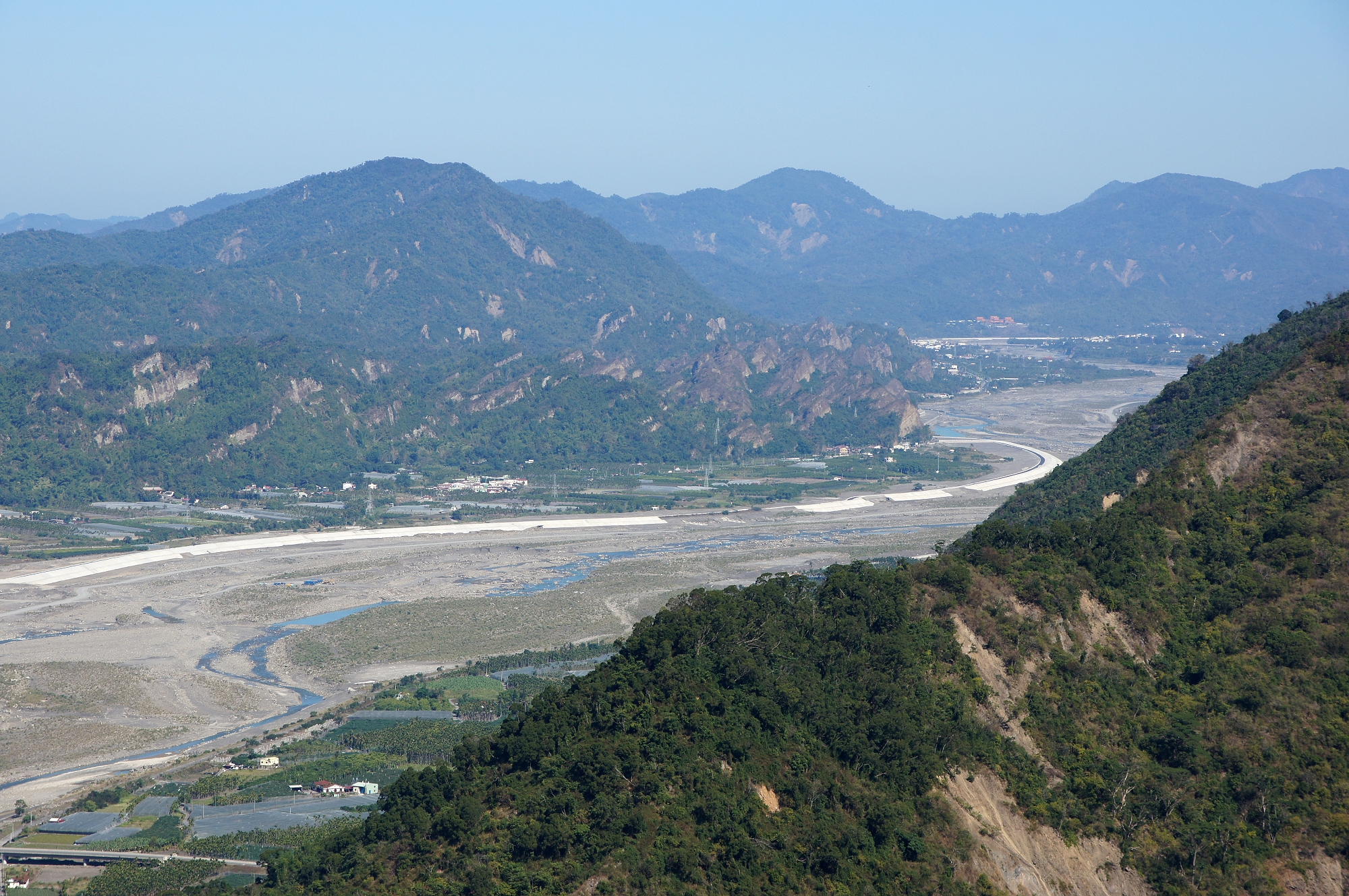 Lao Nung river, Kaohsiung, Taiwan